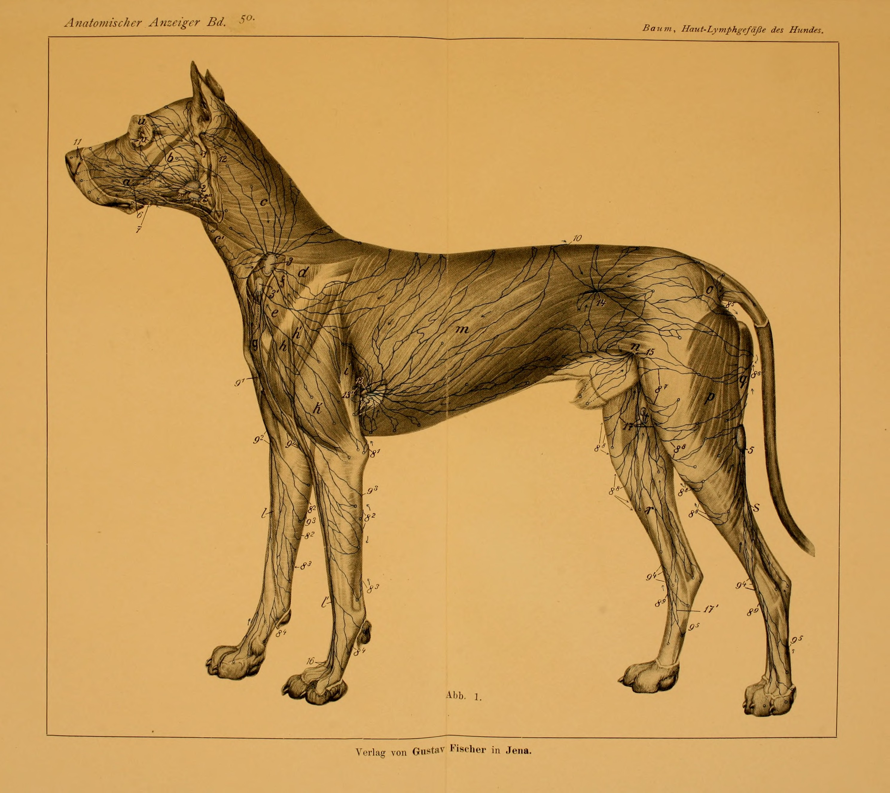 Anatomy of lymph vessels in dog